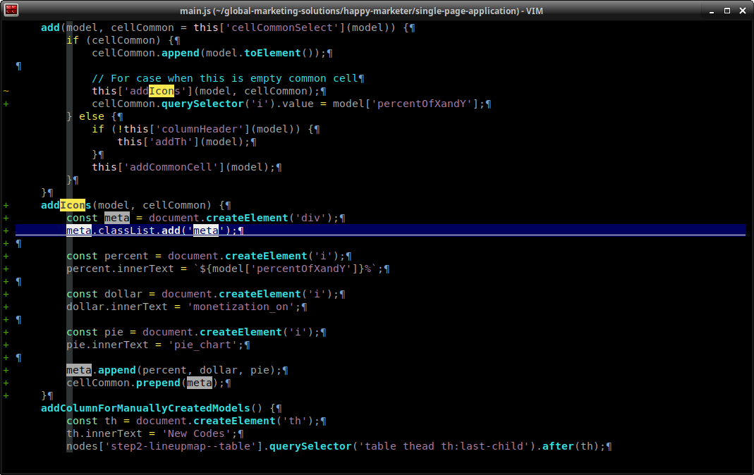 Vim editing JavaScript, with installed plugin GitGutter: pluses at the left shows new lines (according to information from Git).